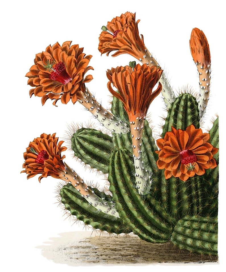 Echinocereus scheeri